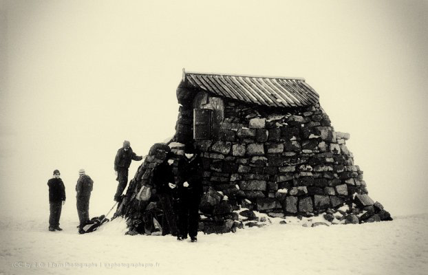 Shelter on the top of the ben nevis